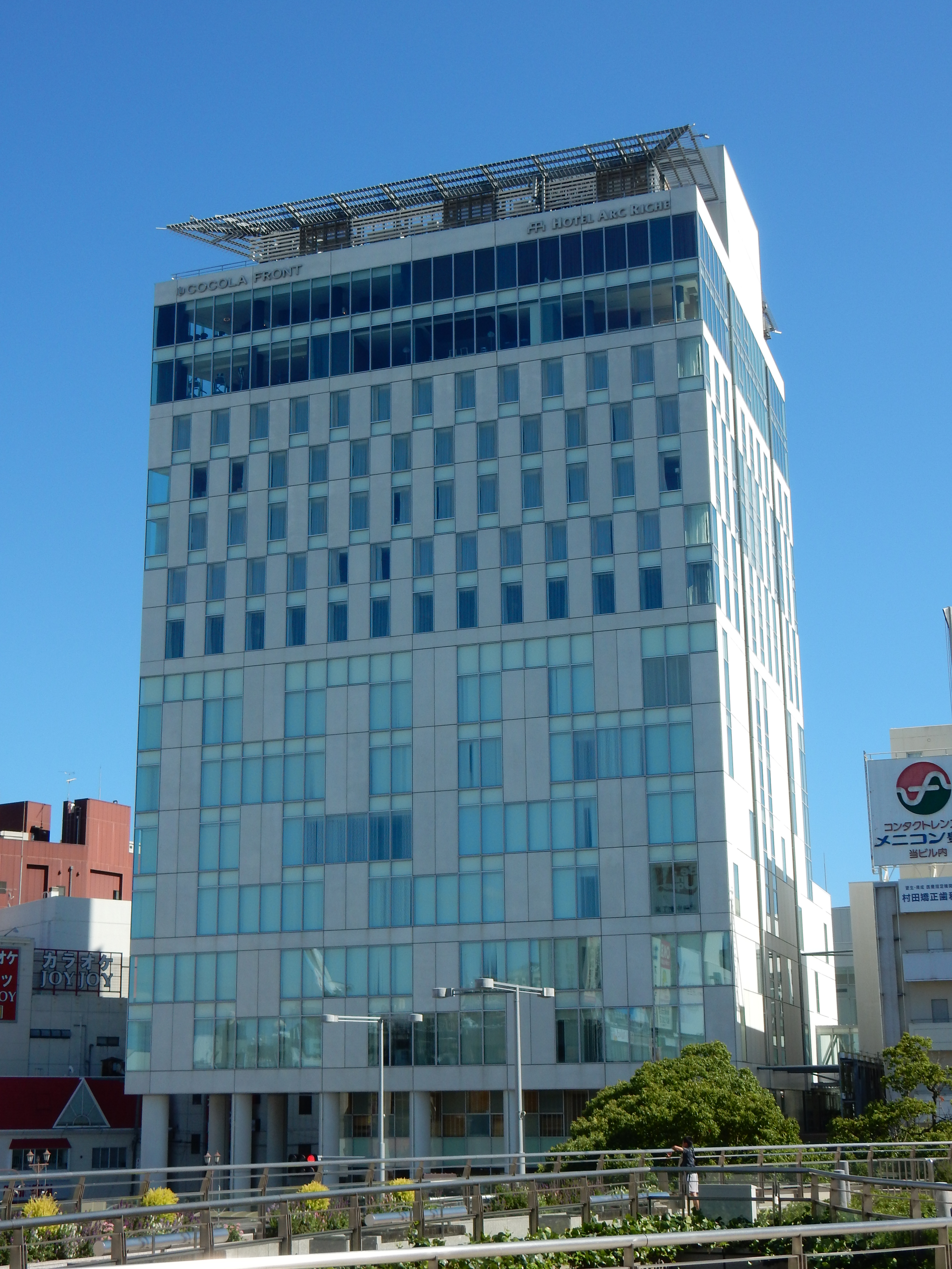 Sala Tower (サーラタワー), located at 1-55 Ekimae-Odori, Toyohashi, Aichi, Japan